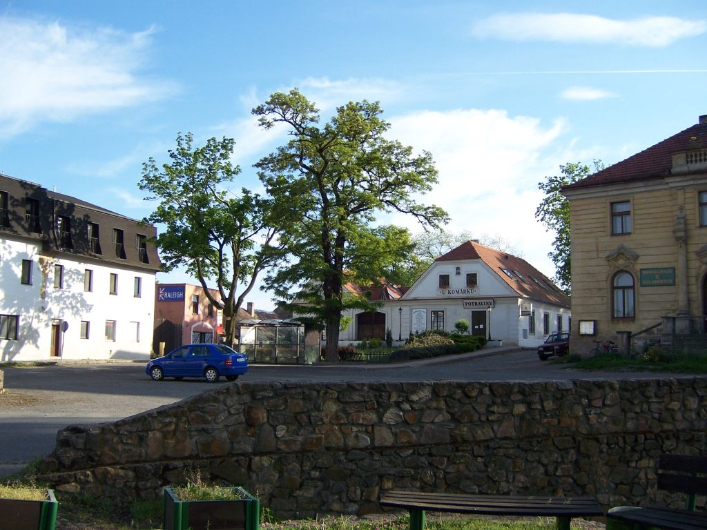 Škvorec, square